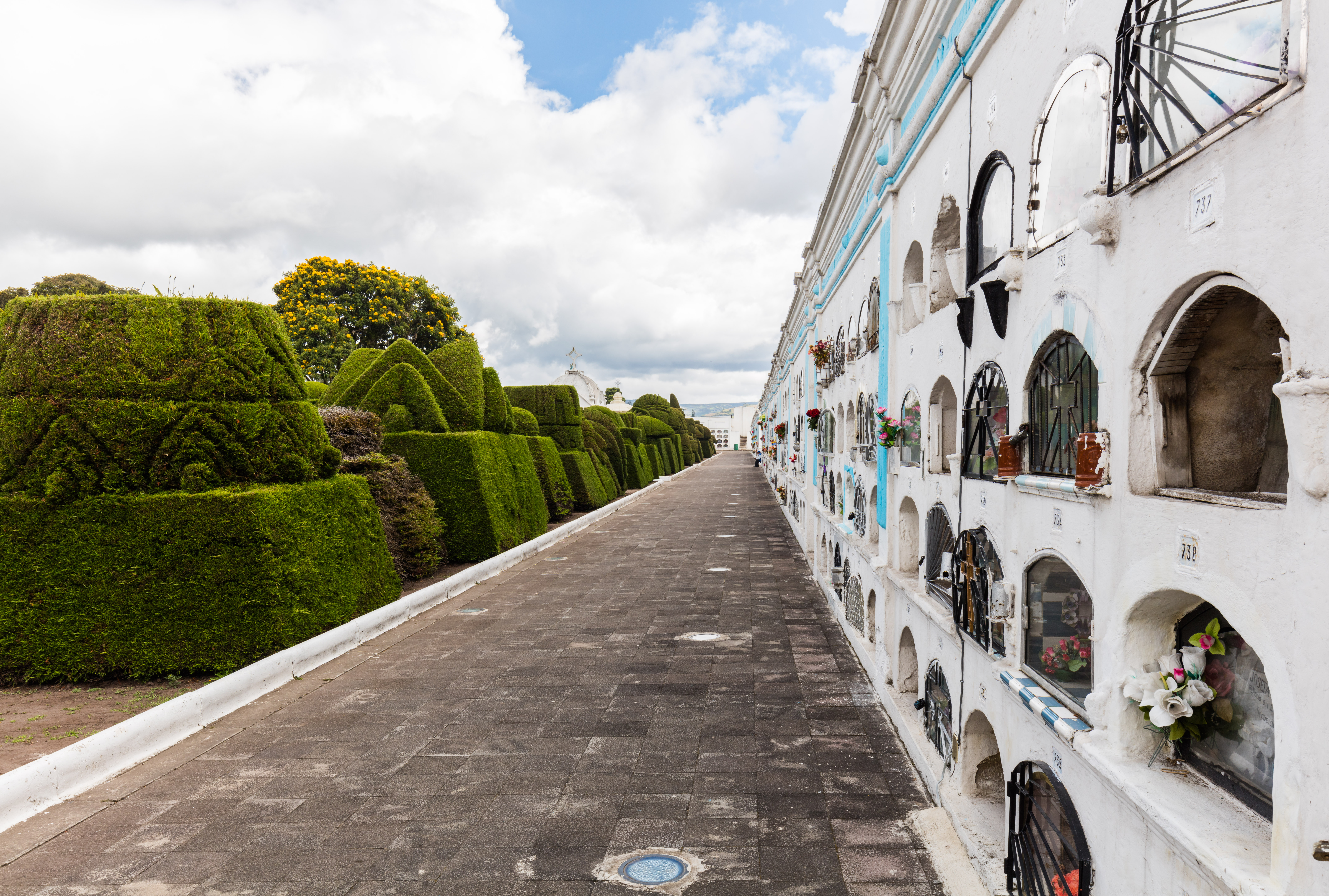 Cemetery, Tulcán, Ecuador